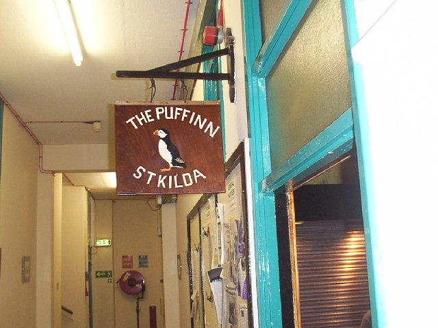 'Puff Inn' sign, St Kilda Possibly unique - an indoor pub sign! At the time of writing, this and other buildings on St Kilda owned by the Qinetiq company are off-limits to visitors. For more details